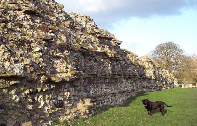 Roman Wall at Calleva Atrebatum